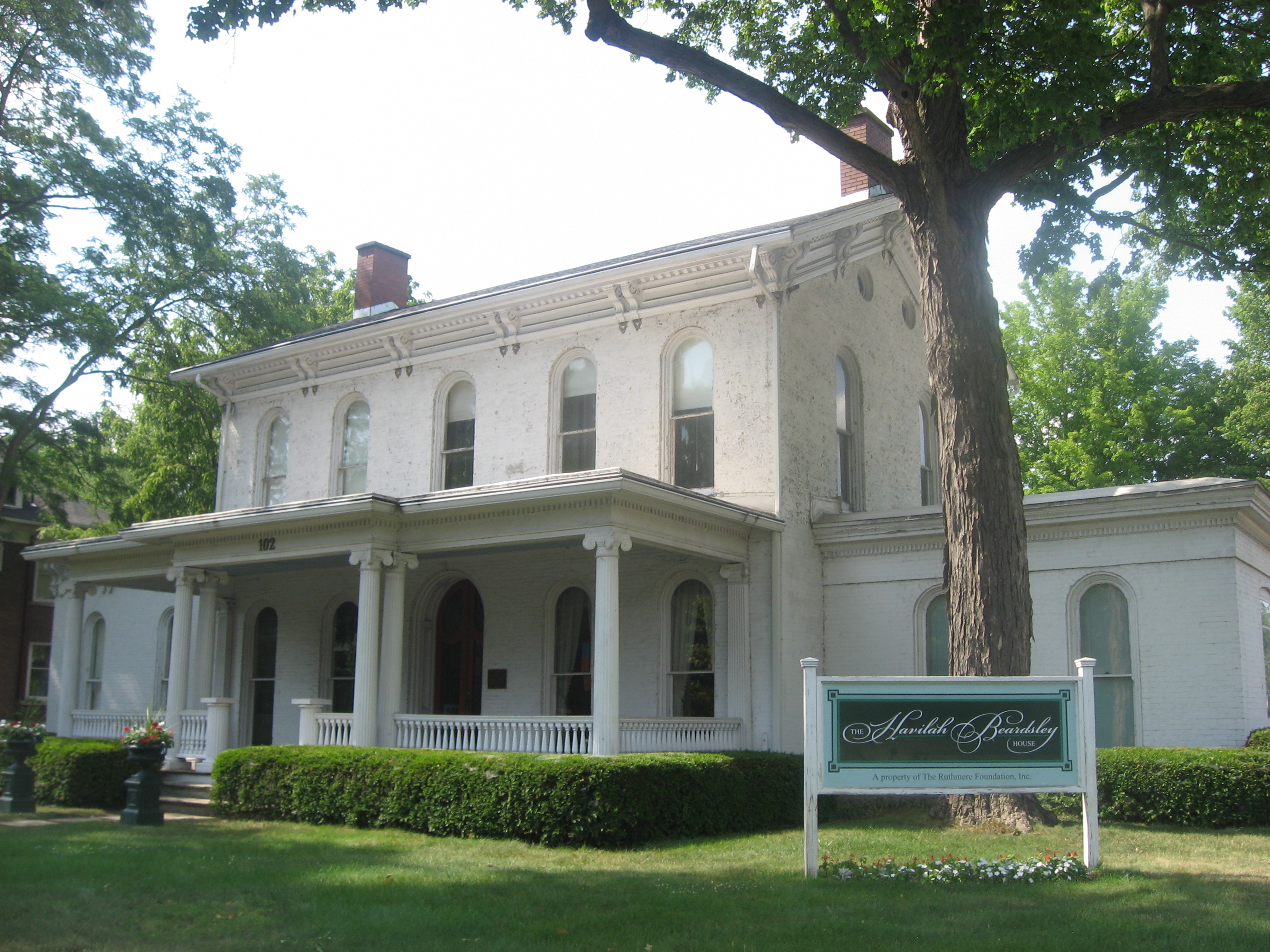 Front of the Dr. Havilah Beardsley House, located at 102 W. Beardsley Avenue in Elkhart, Indiana, United States. Built in 1848, it is listed on the National Register of Historic Places, and it is part of a Register-listed historic district, the Beardsley Avenue Historic District.